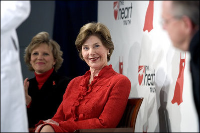 First Lady Laura Bush sits with Lois Ingland, a heart disease survivor, during an event at the Carolinas Medical Center Wednesday, Feb. 15, 2006, in Charlotte, NC. Despite having none of the risk factors of heart disease, Lois, a mother of four, suffered a heart attack when she was 36 years old.